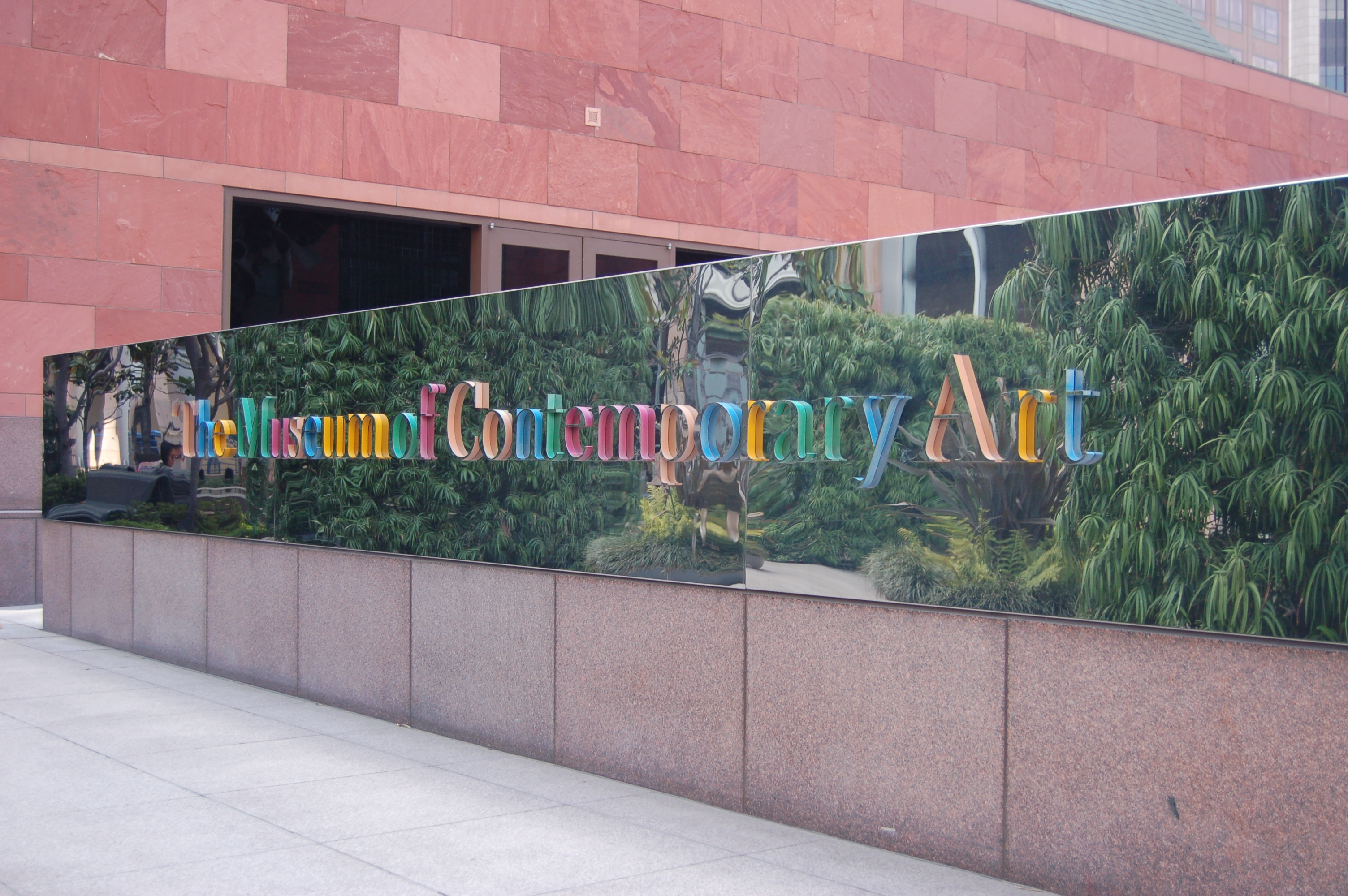 The Museum Of Contemporary Art (MOCA) Sign